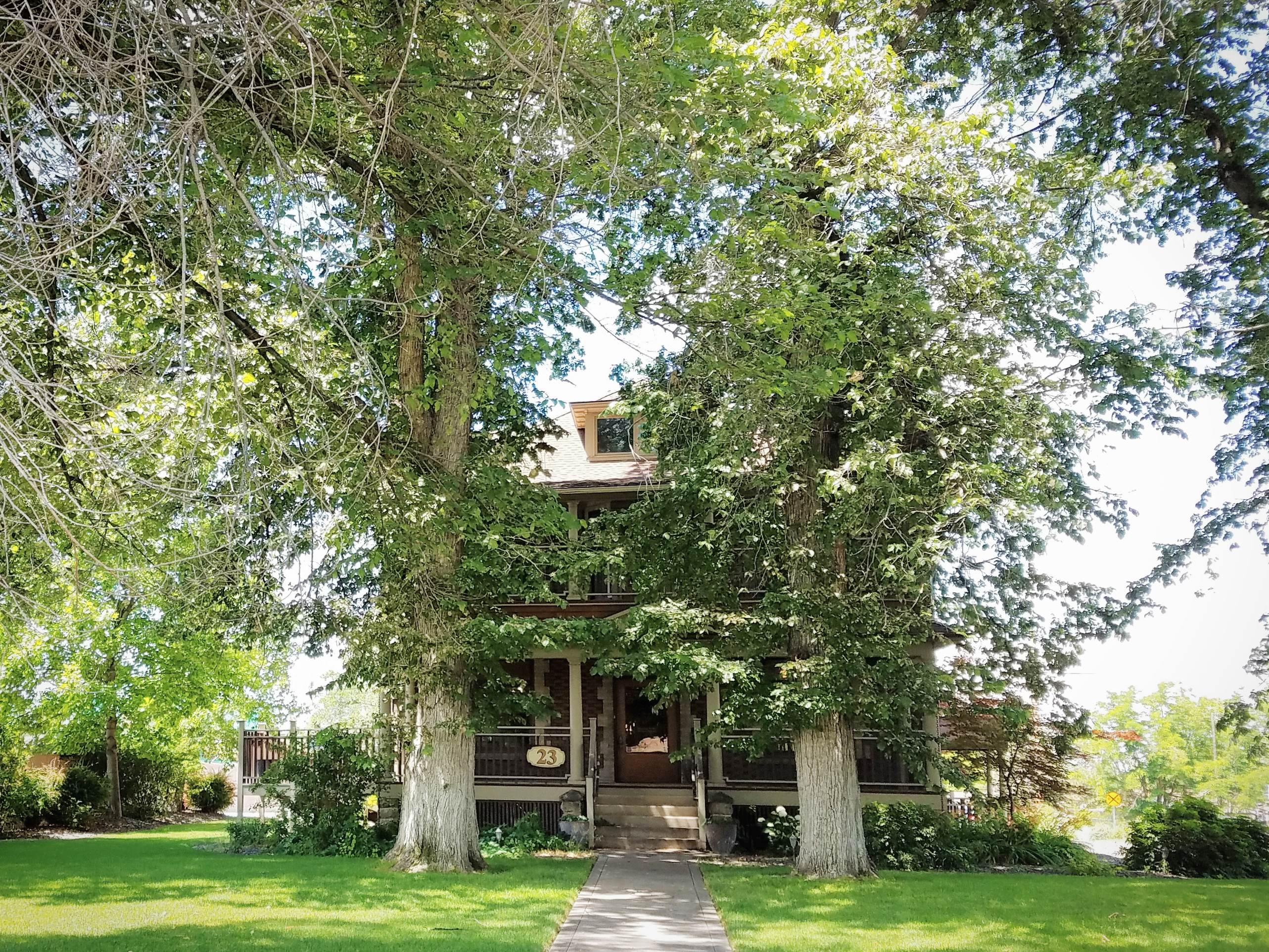 The Jacob P. Lockman House in Nampa, Idaho, was constructed in 1906 on the site formerly occupied by the home of Nampa founder Alexander Duffes. Lockman built Nampa's first brewery, the Overland Brewery, adjacent to the house in 1906.